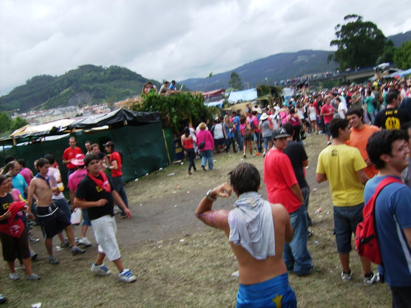 xiringüelo xiringuelo chiringuelo party in Asturias Spain Pravia Peñaullan